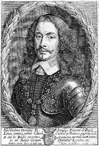 Retrato de Antonio Pimentel